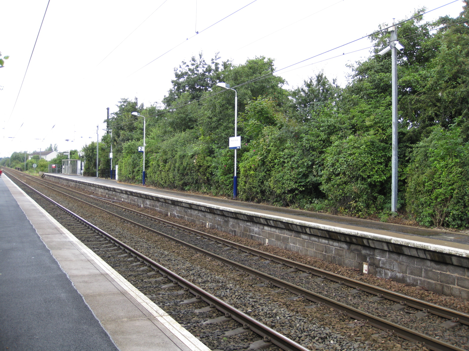 A view of Wester Hailes railway station, looking west. Picture taken 25 August 2012.